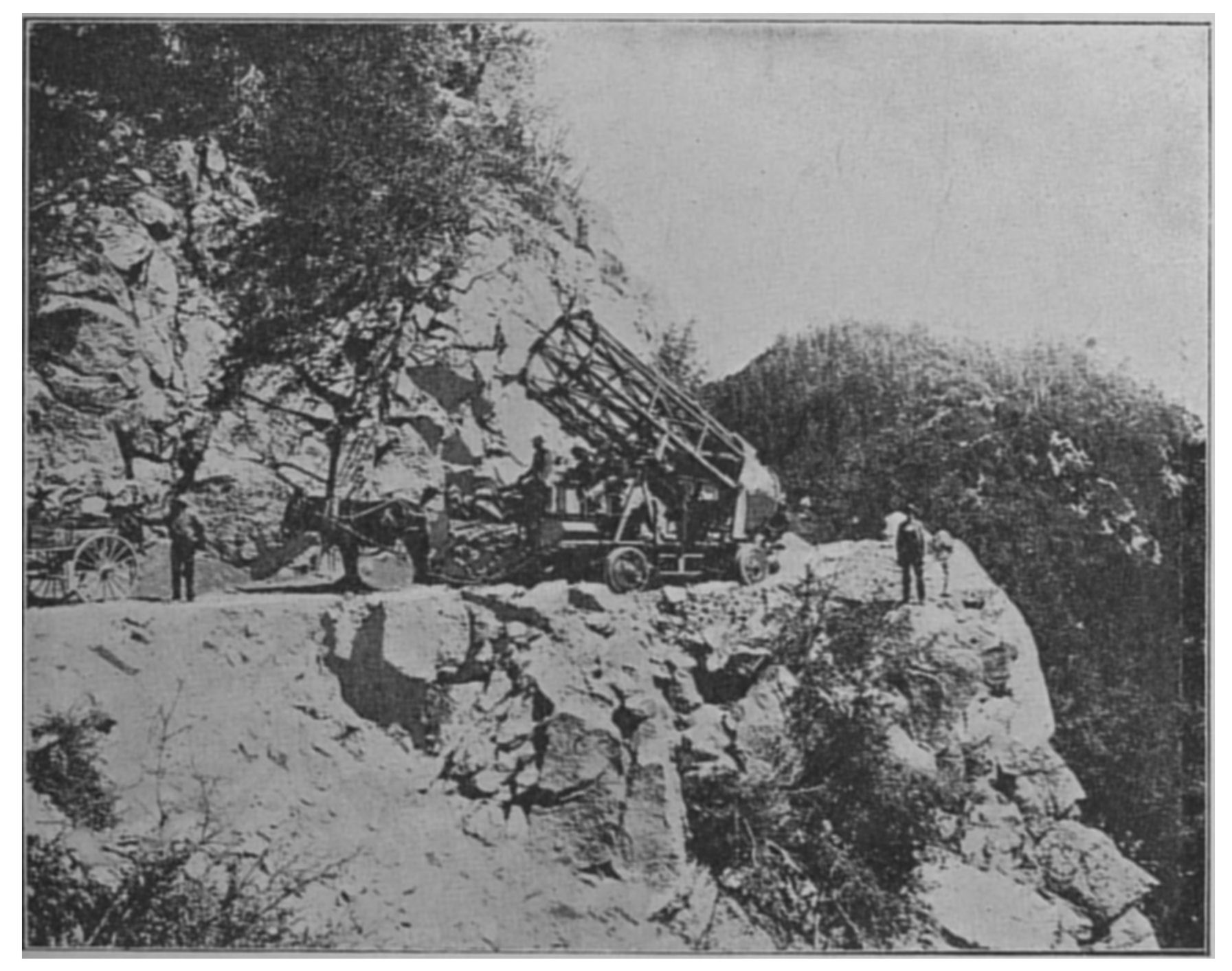 The great Five-foot Telescope being taken up Mount Wilson.